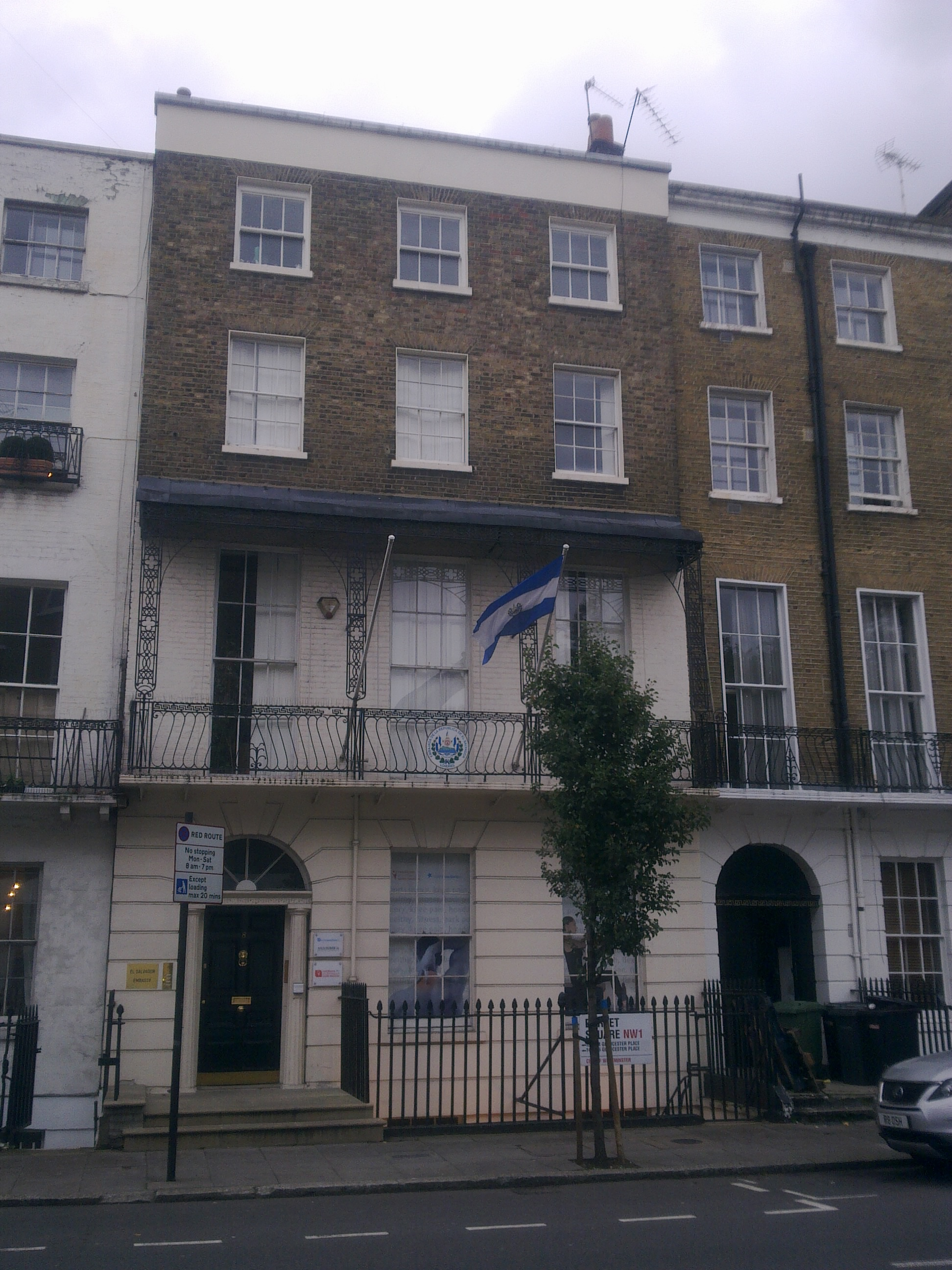 Embassy of El Salvador in London 1